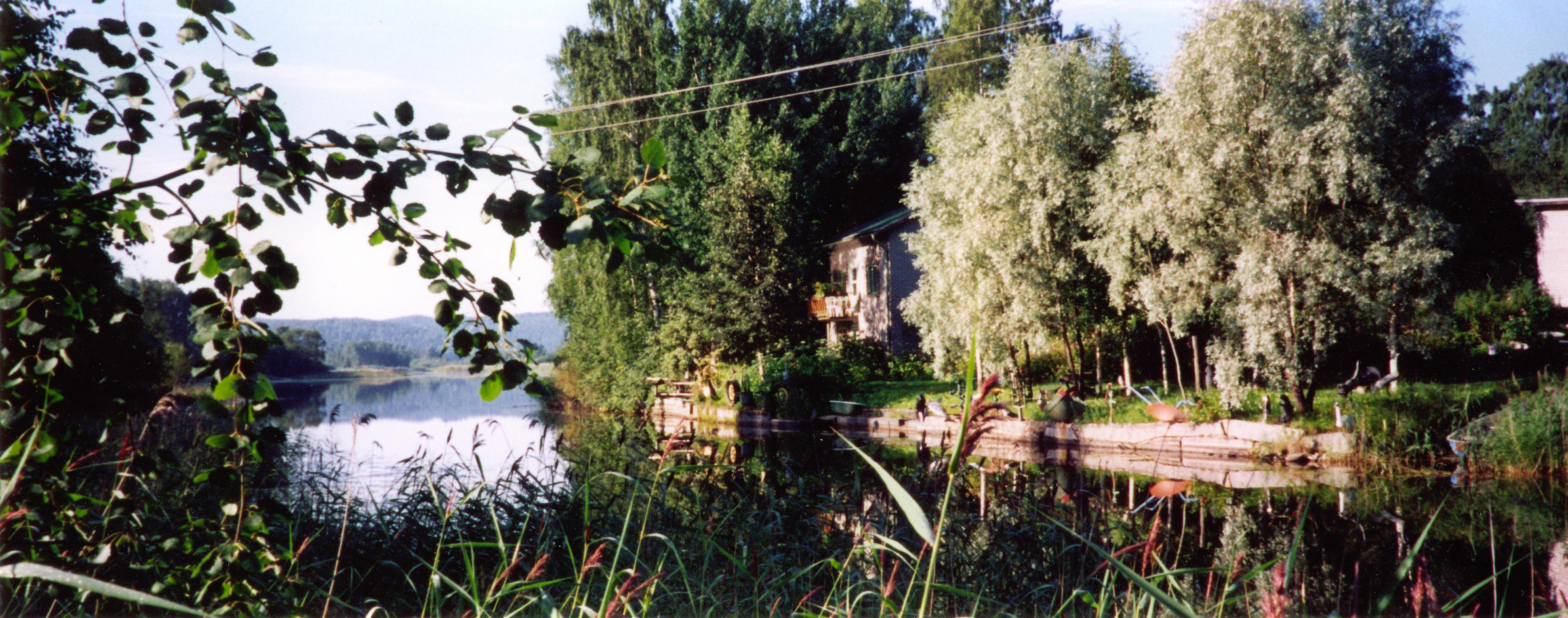 Narrow gulfs of lake Päijänne. Putkilahti village, Finland